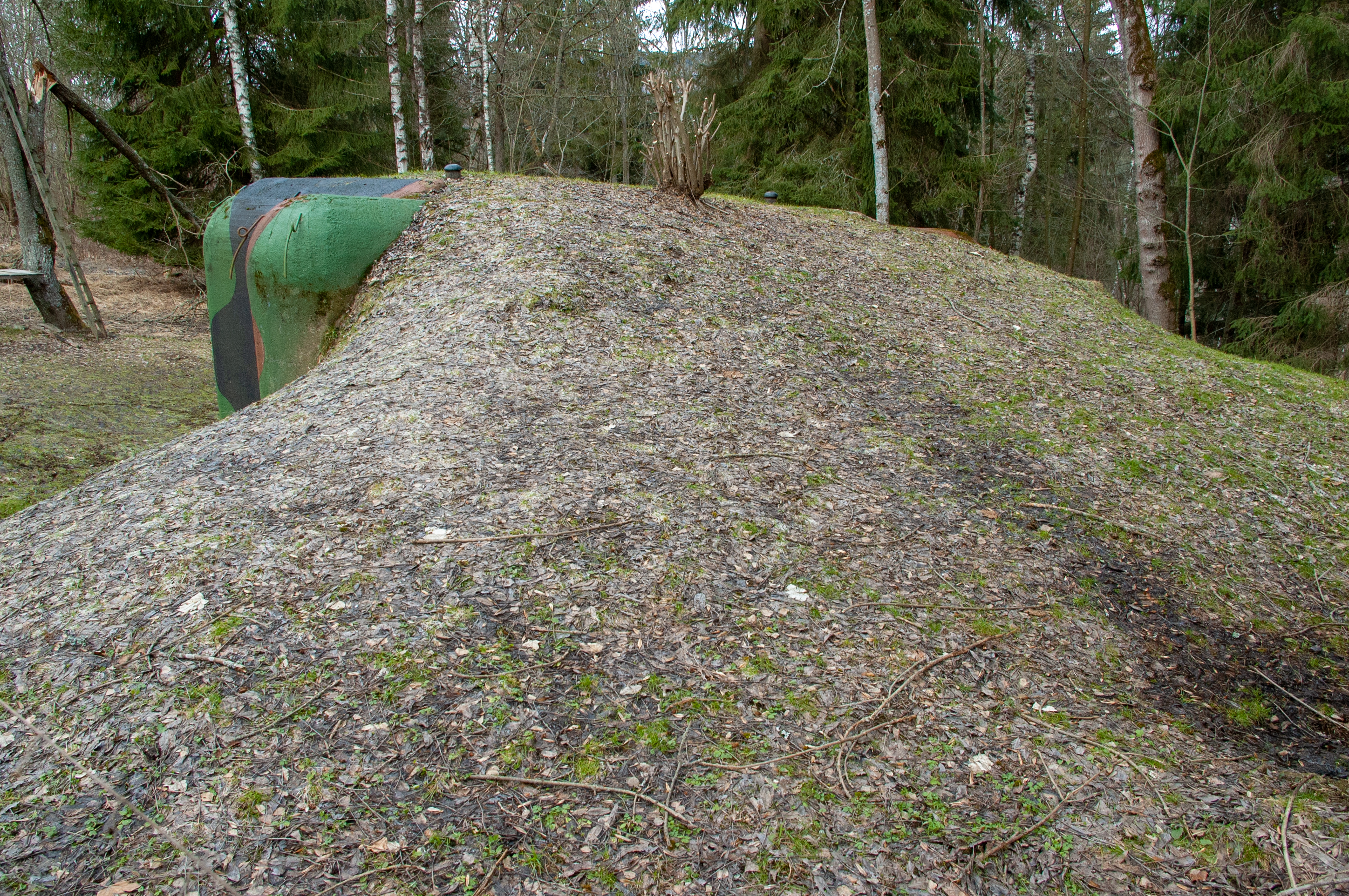 This image was created as a part of Editaton Prachatice (Czech).